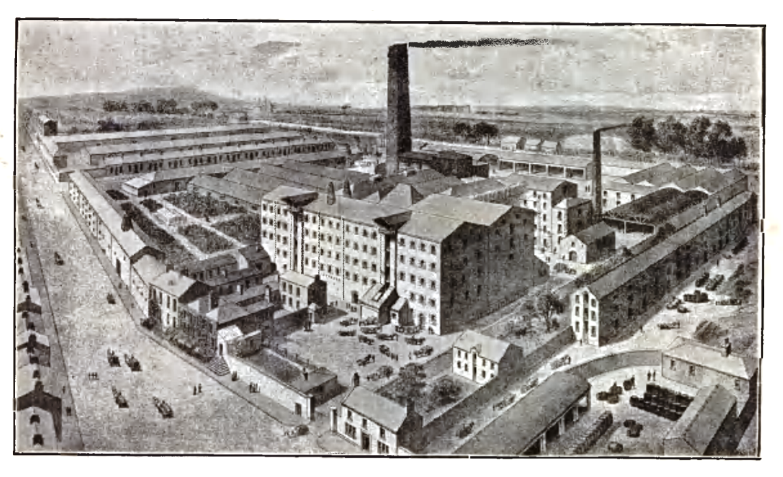 Sketch of Malcolm Brown & Co.'s Dundalk Distillery circa 1892.